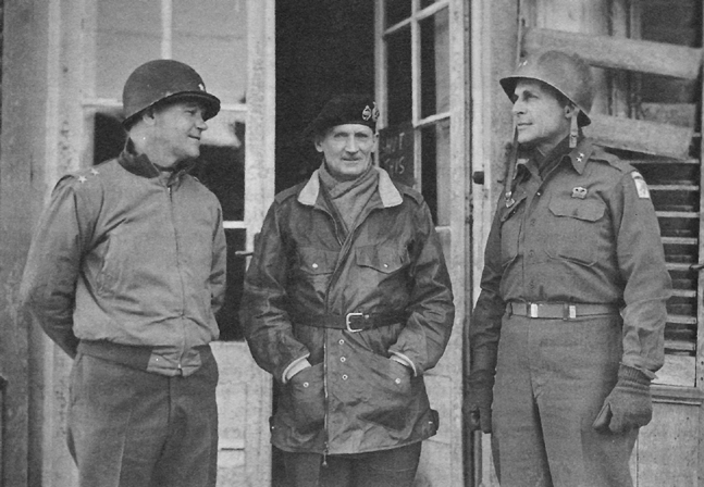 General Collins, Field marshal Montgomery, and General Ridgeway.